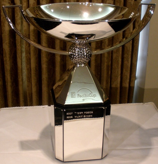 The trophy was displayed at Atlanta Press Club, September 2009.